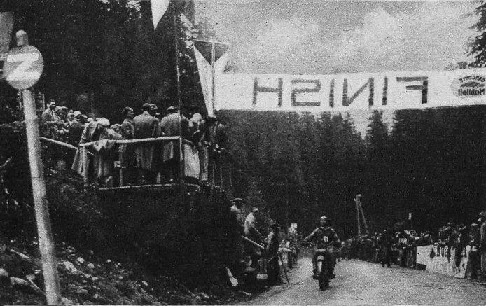 Tatra Rally, Poland, August 1927.